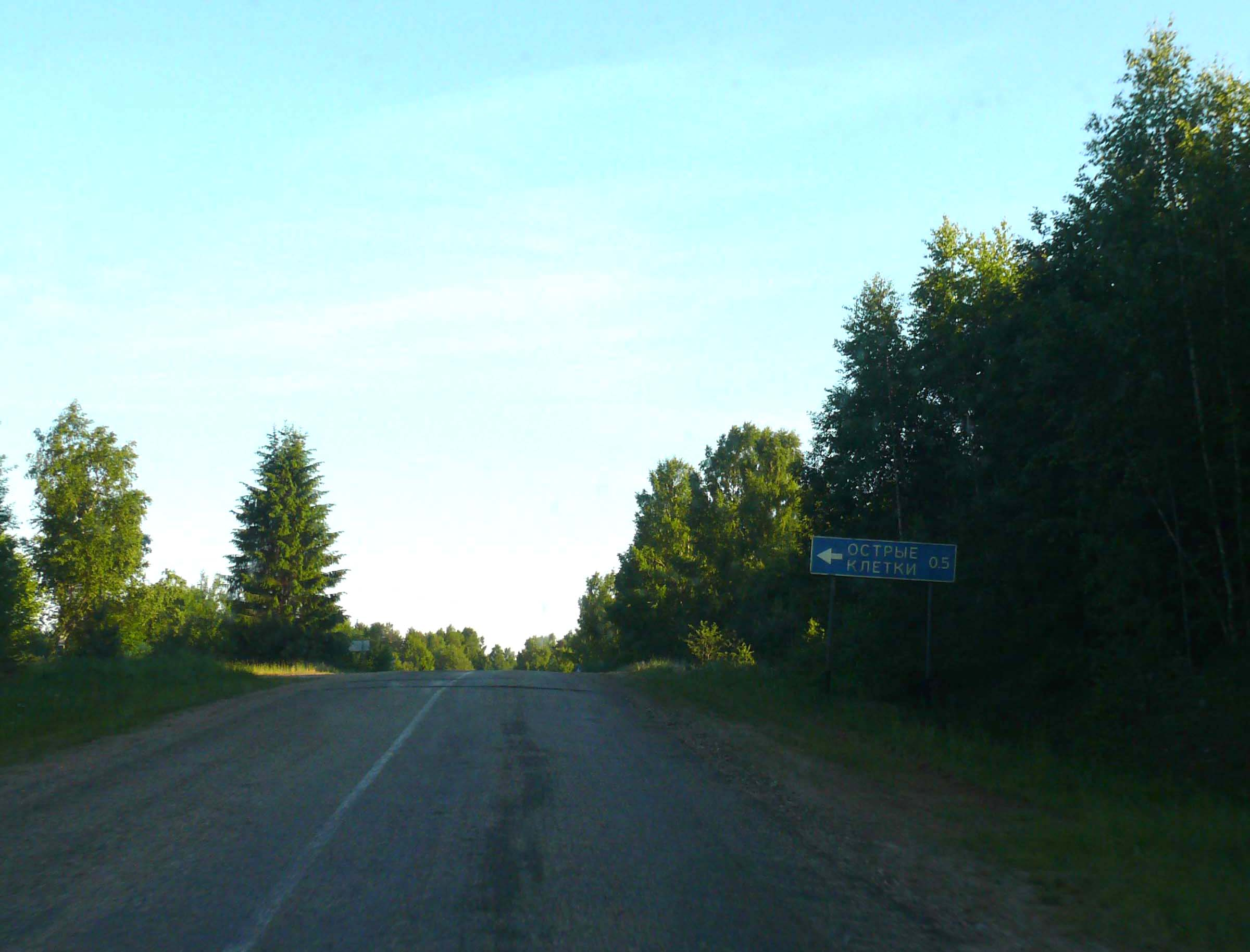 The turn sign to Ostrye Kletki village. Borovichsky district, Novgorod oblast, Russia